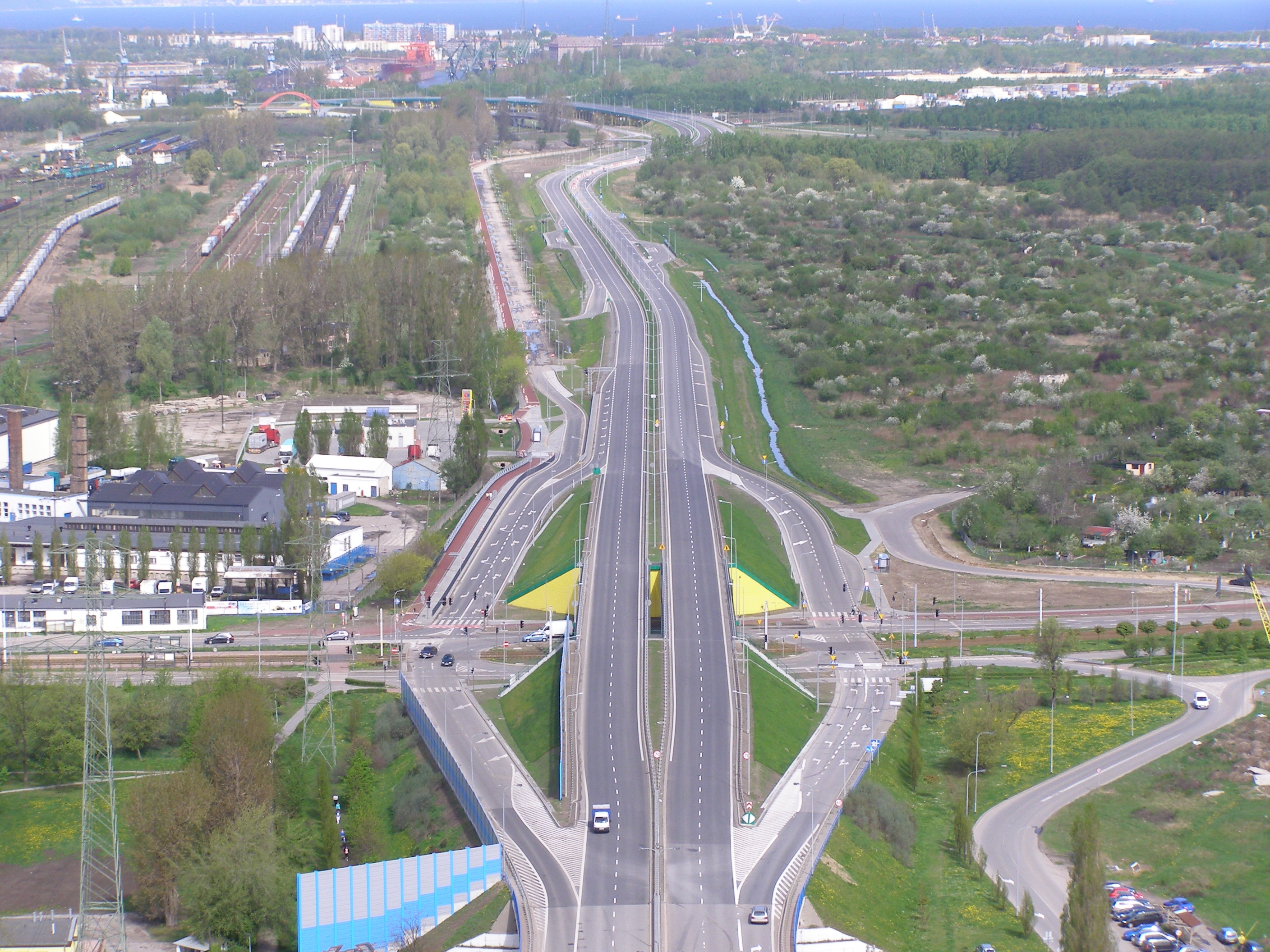 Gdańsk - view from the John Paul II Bridge.